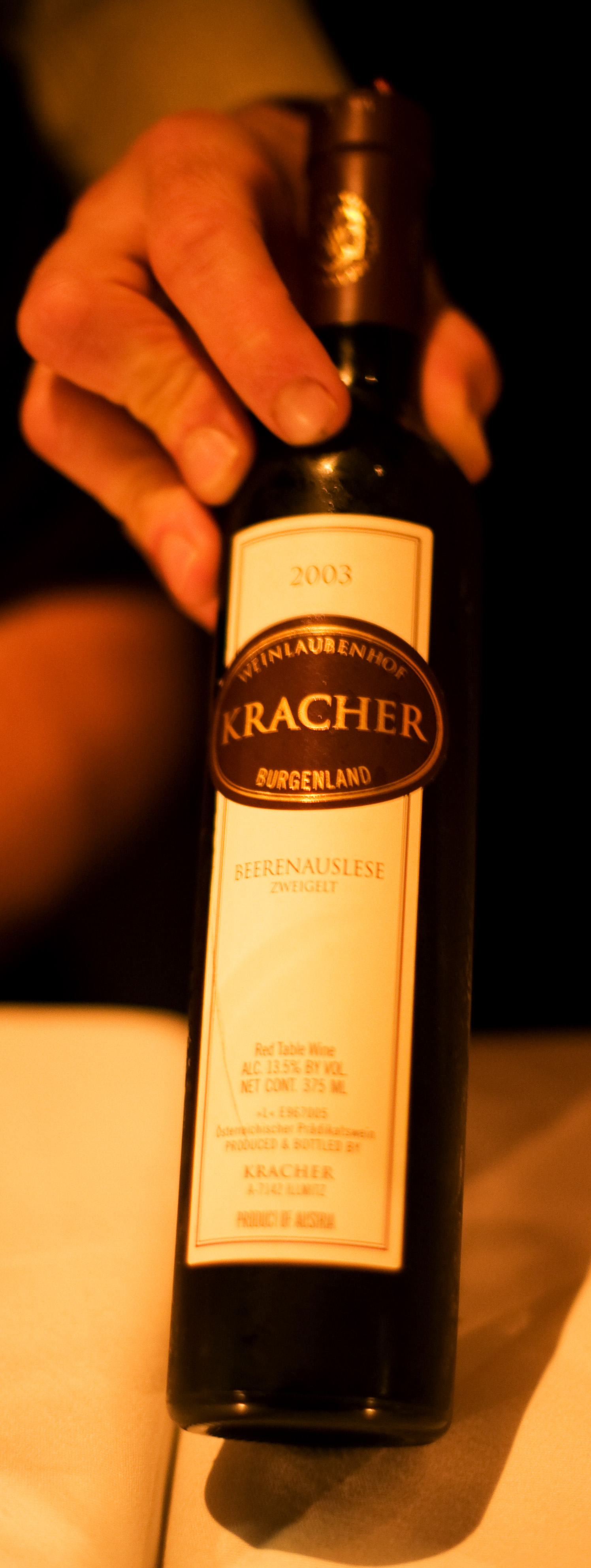 Kracher 2003 Beerenauslese. An unusual wine, it's a rose beerenauslese with about 20% botrytis.